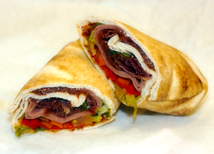 Pita with two types of bastirma/pastirma, harissa, lettuce, and roasted peppers.